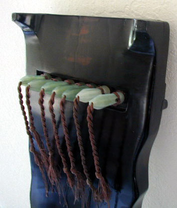 Picture of jade tuning pegs for the guqin